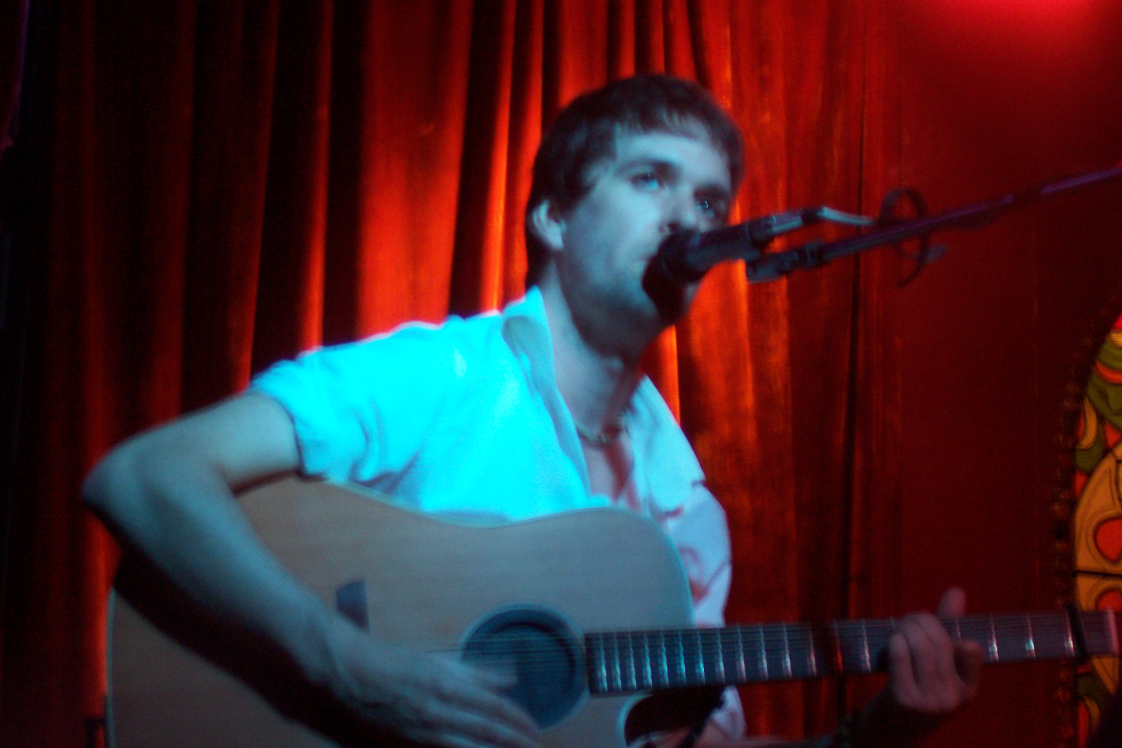 Picture taken by me at a live convert in Provo, UT, at The Velour.